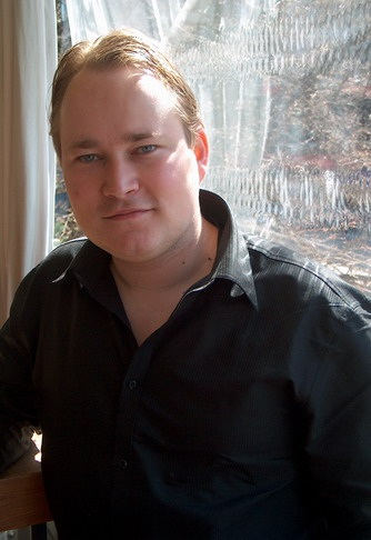 Martin Gijzemijter